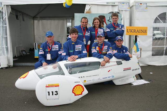 SEM Team from Ukraine 2011 and KhADI-34